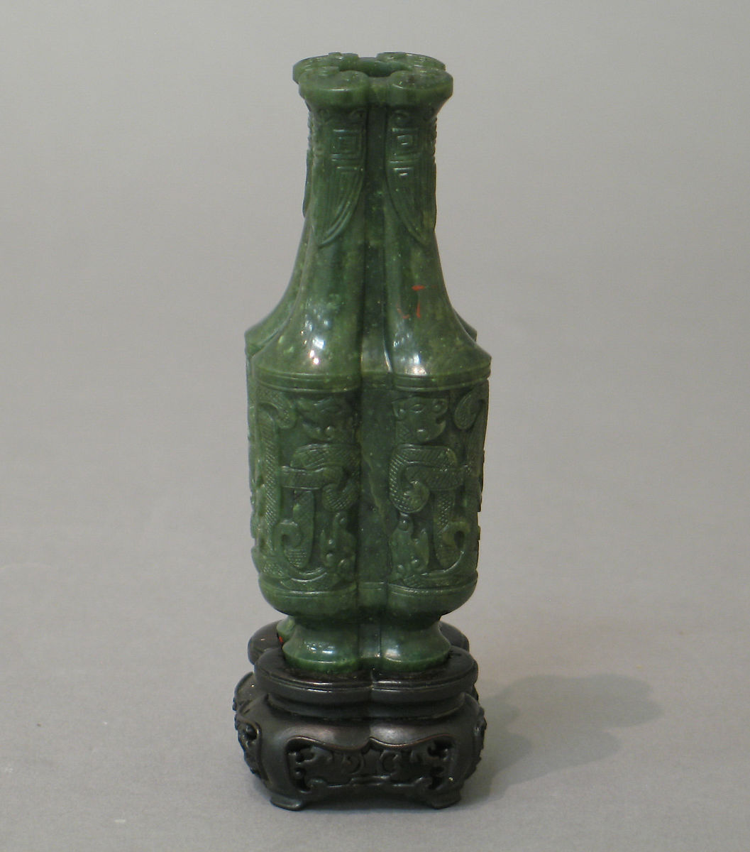 The interlaced designs, many ending in dragon’s heads, on the surface of this vase can be traced to decorations found on bronze vessels during the latter part of the Zhou dynasty (1046–256 B.C.).